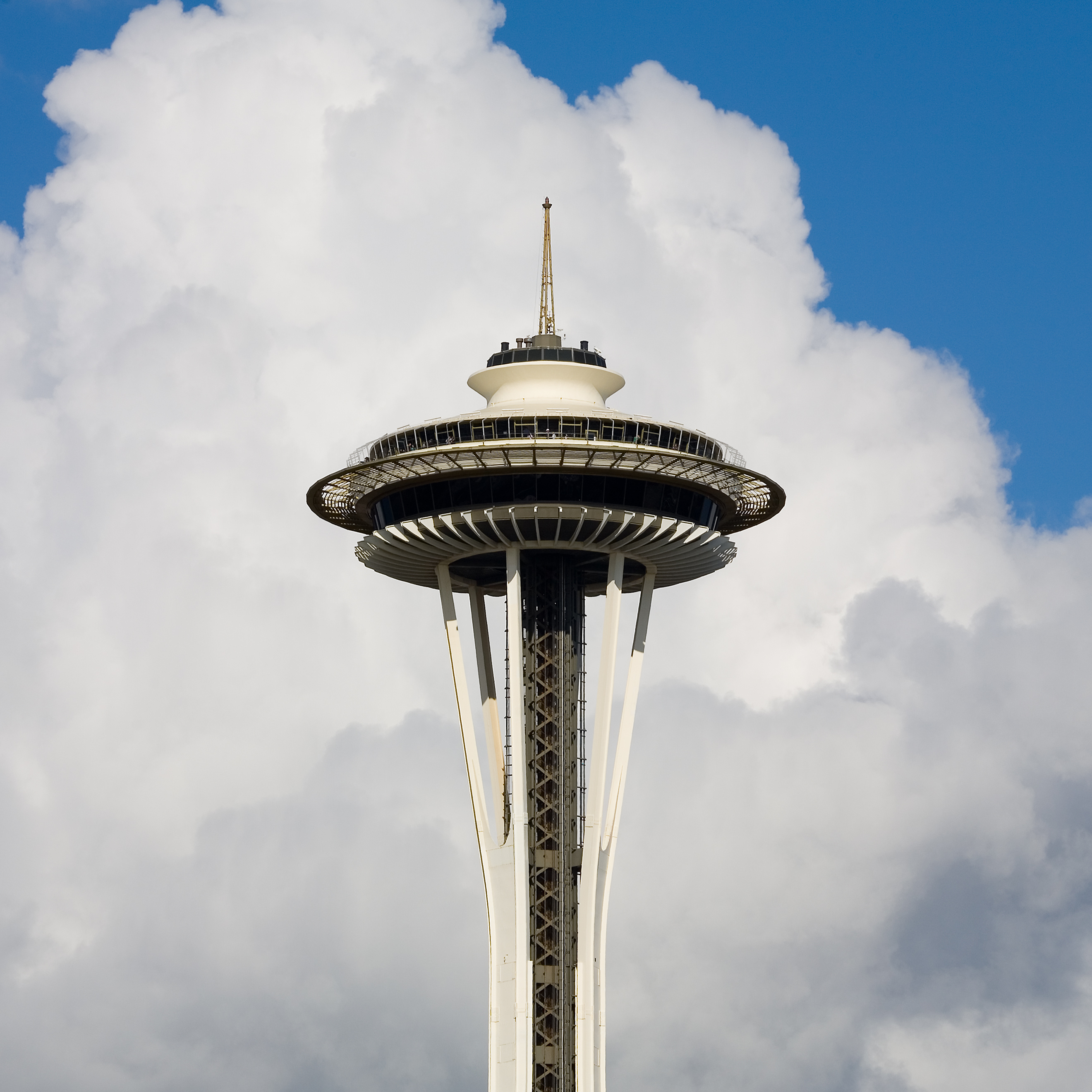 Alternate of Image:SpaceNeedleTopClose.jpg